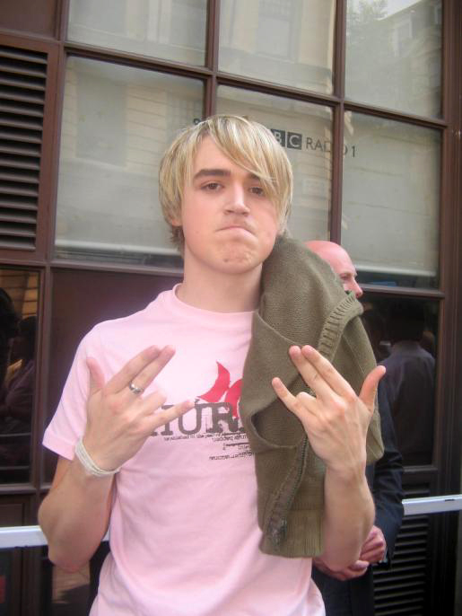 Tom Fletcher of McFly.